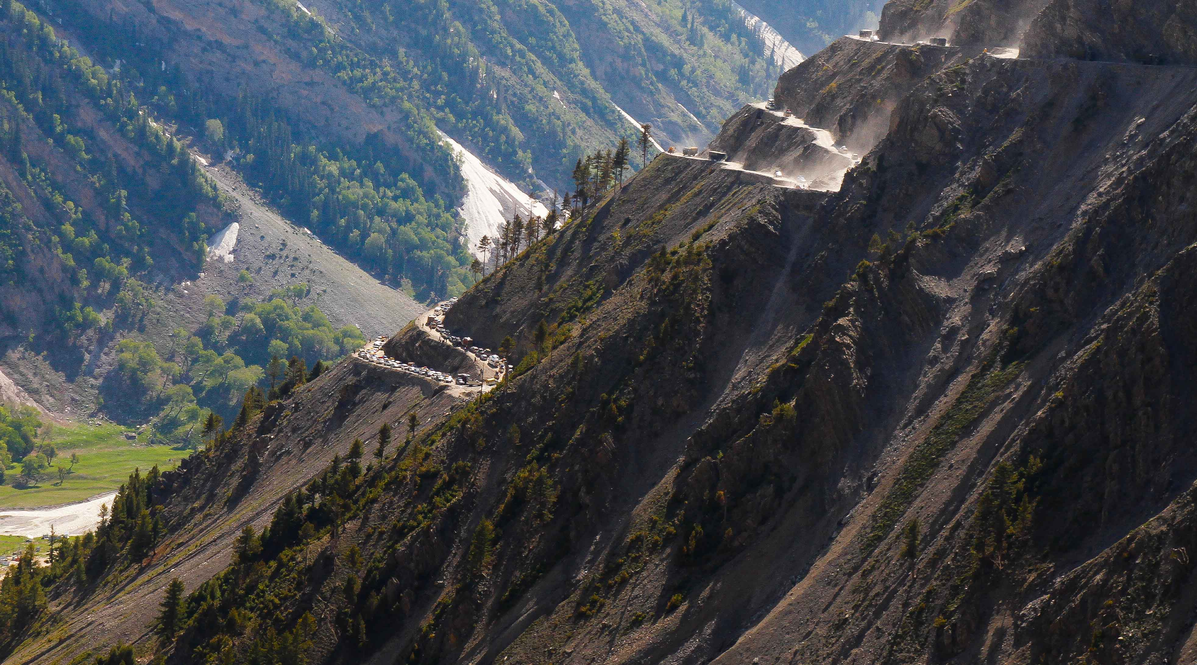 Zoji La is a high mountain pass in India, Kashmir, located on the Indian National Highway 1D between Srinagar and Leh in the western section of the Himalayan mountain range.